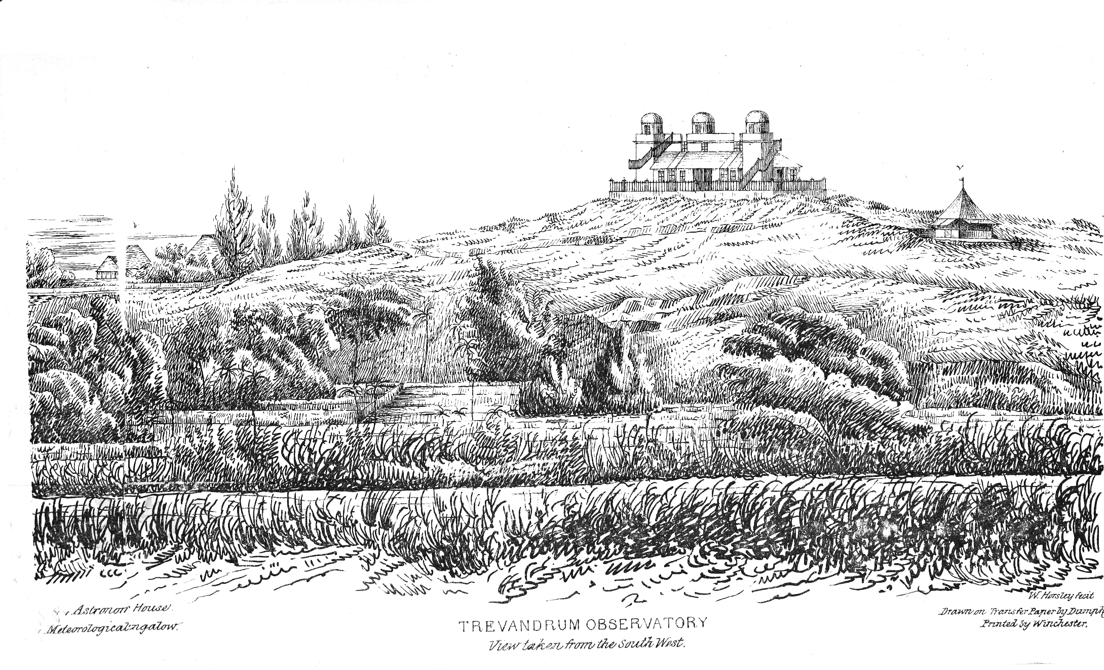 View of the Trevandrum / Travancore observatory